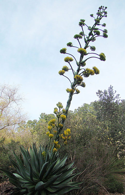 Mexican, and one of the species used to make the fermented drink Pulque. UC Berkeley Gardens. In context at